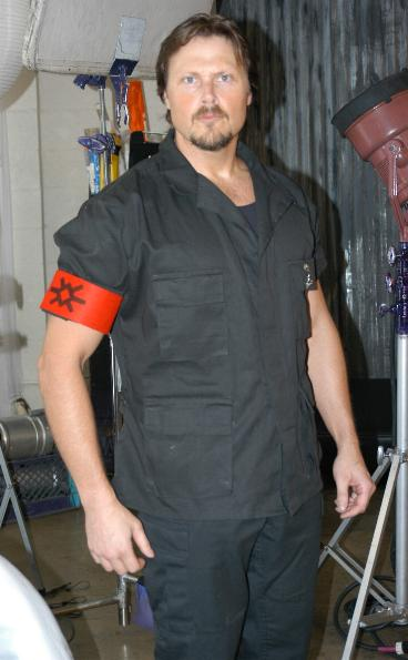 Van Damage, pornographic actor. Taken on the set of DCypher's Taboo 22 in June, 2006.